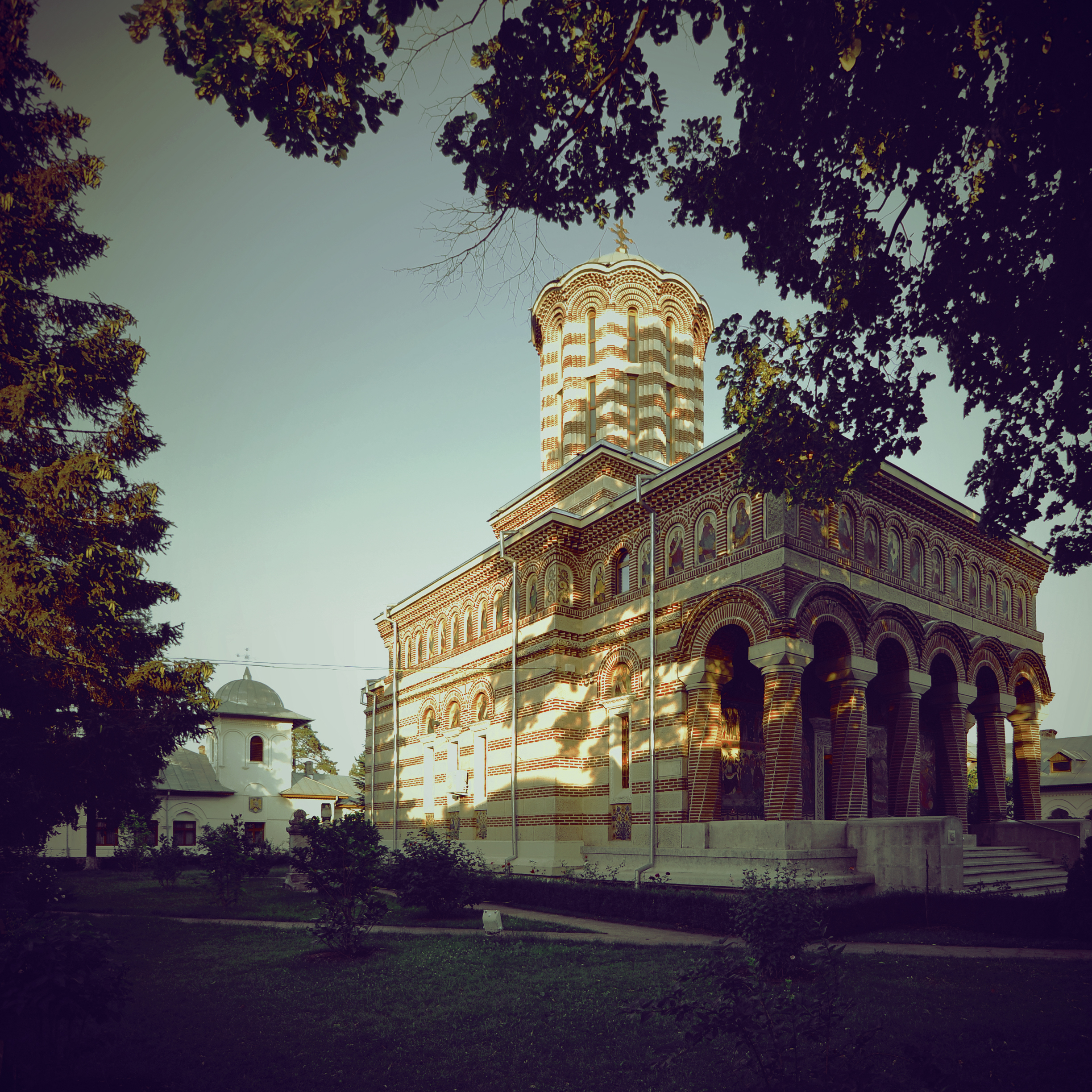 Samurcasesti Monastery